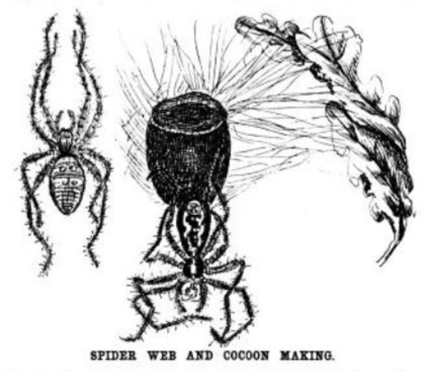 An illustration of Argiope trifasciata (identified as Argiope transversa by the artist) making a cocoon, as observed by Maria Louise Pike in October 1887, and published in Scientific American in 1889.